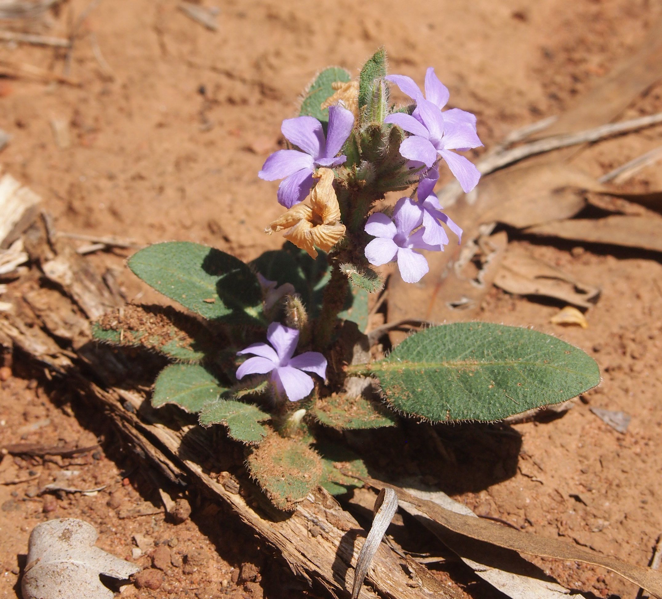 Brunoniella australis